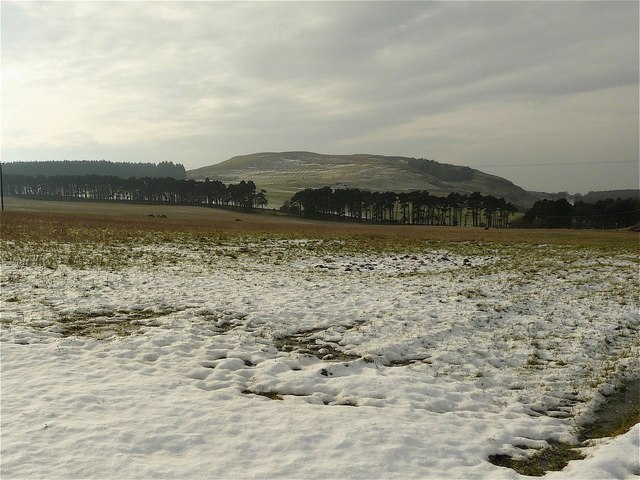 Footpath to Cockleroi A footpath heads off along the edge of the field at the right of the photo, leading eventually to Cockleroi, Linlithgow's local hill. Cockleroi is a whin outcrop and forms a distinctive crag and tail silhouette when see from the north. Here the view is from the "tail".